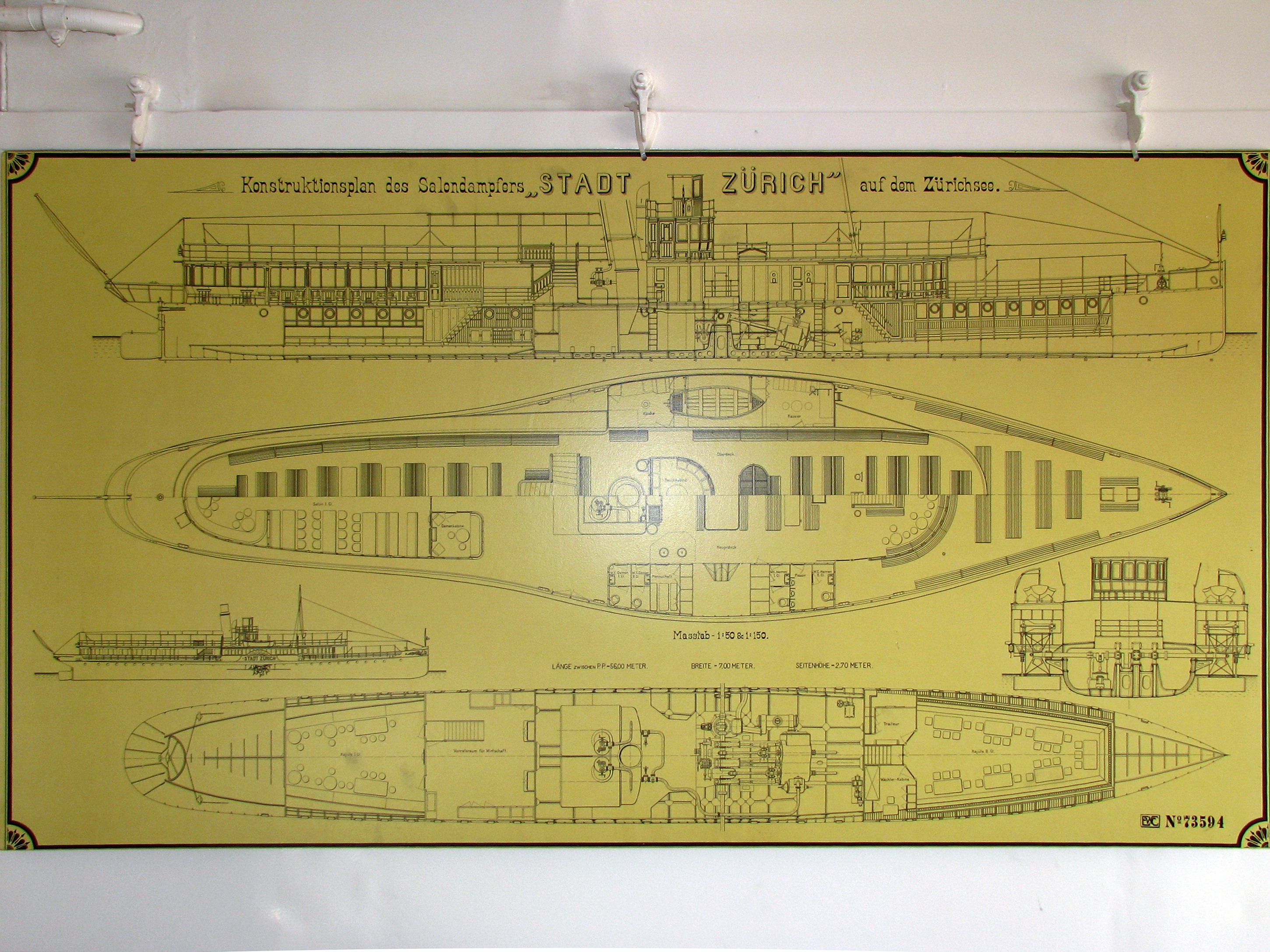 Zürichsee-Schiffahrtsgesellschaft (ZSG) : Paddle steamship «Stadt Zürich» (Construction plan) at Zürich-Bürkliplatz.